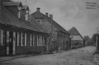 Road through Salacgriva, 1910, Latvia